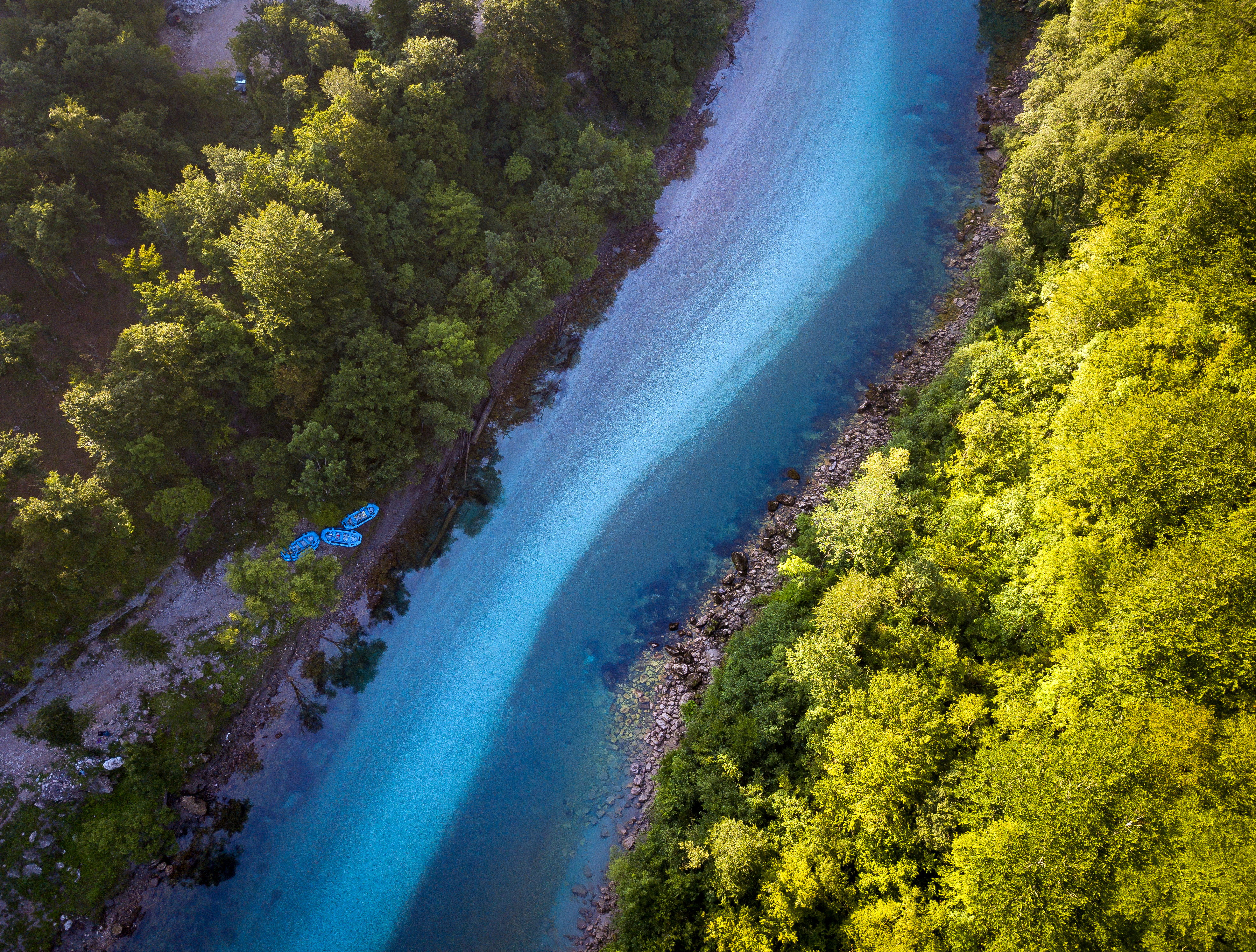 Drina